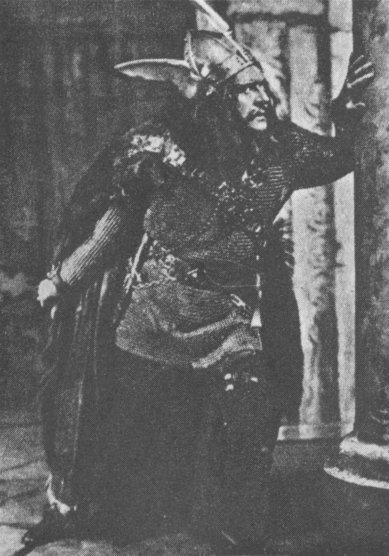 English actor Herbert Beerbohm Tree (1852-1917) as William Shakespeare's Macbeth